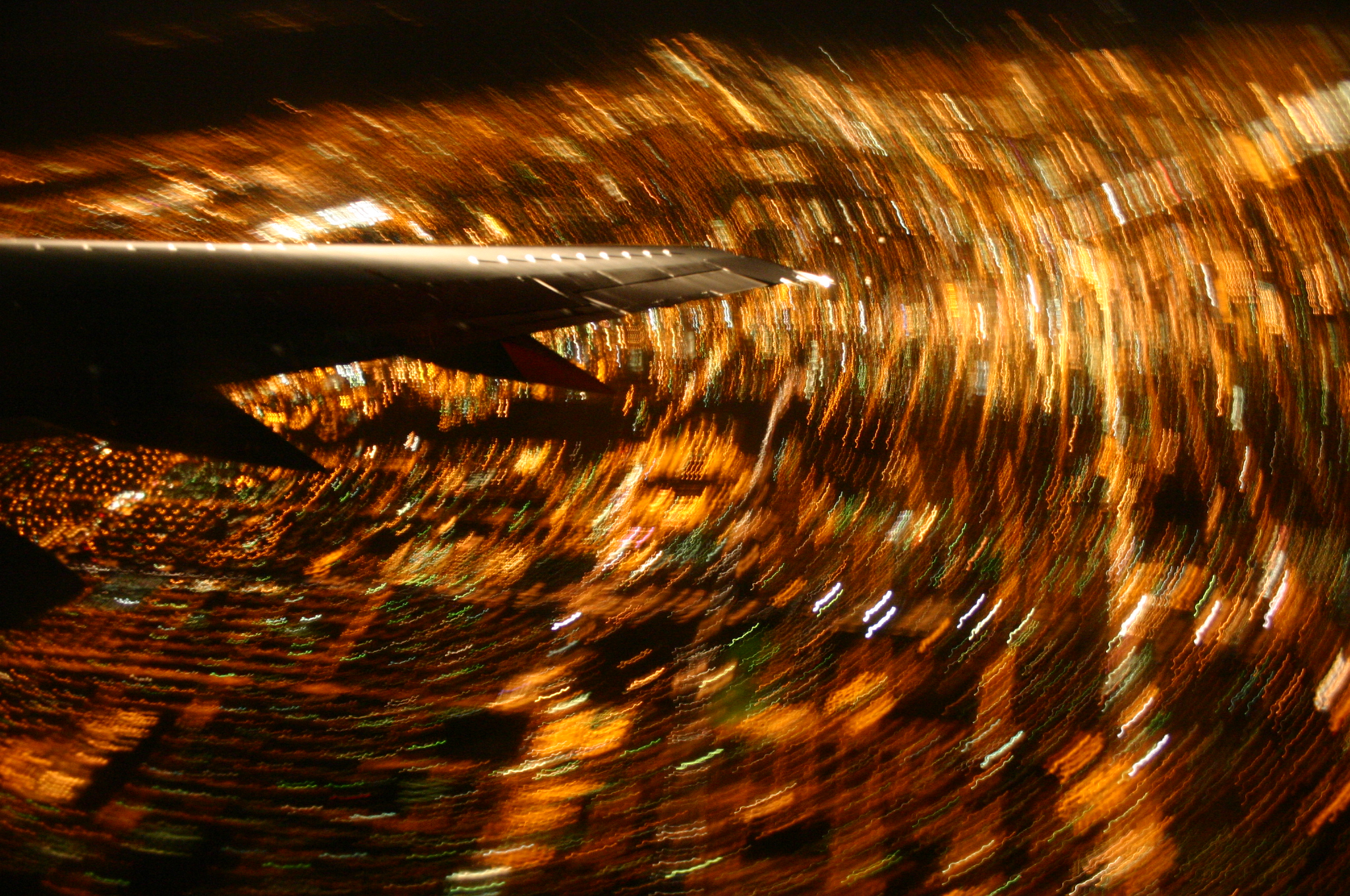 This photo magnificently illustrates the art of rotation. Aboard an airplane rotating above the San Jose International Airport at night (the black horizontal strip in the middle of the photo is the runway)